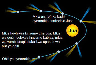 Comet Diagram, text translated to Swahili Kiswahili: Mabadiliko ya mkia wa nyotamkia wakati wa kuzunguka Jua, maelezo yameswahilishwa